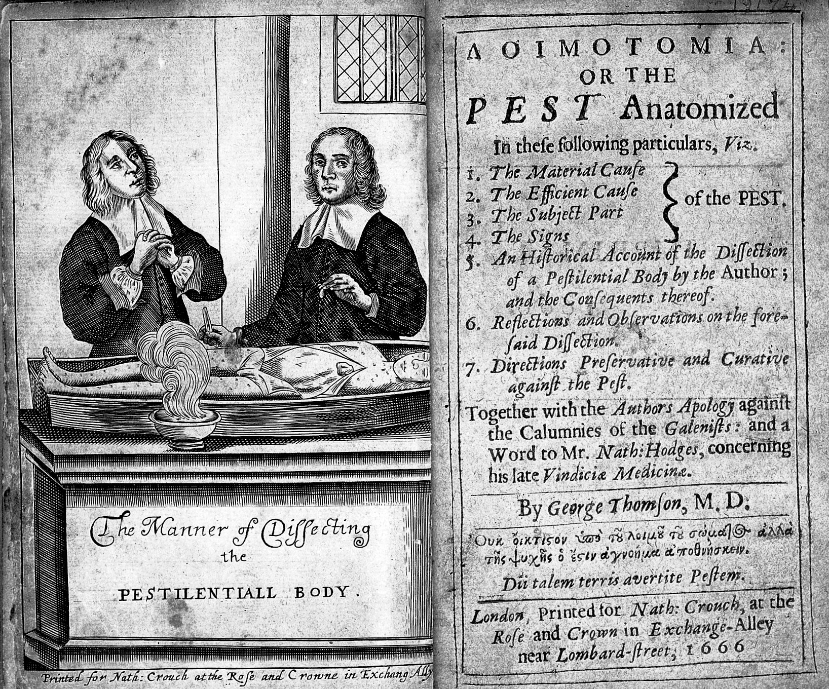 Two men, supposedly George Thomson holding the knife, dissecting a body covered with plague marks. Incense is burning in a bowl to camouflage the stench of the body. Rare Books Keywords: Great Plague; Plague; Research; Dissection